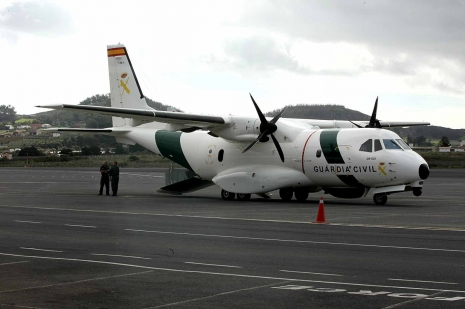 EADS/CASA CN 235 PM Civil Guard's Surveillance Aircraft